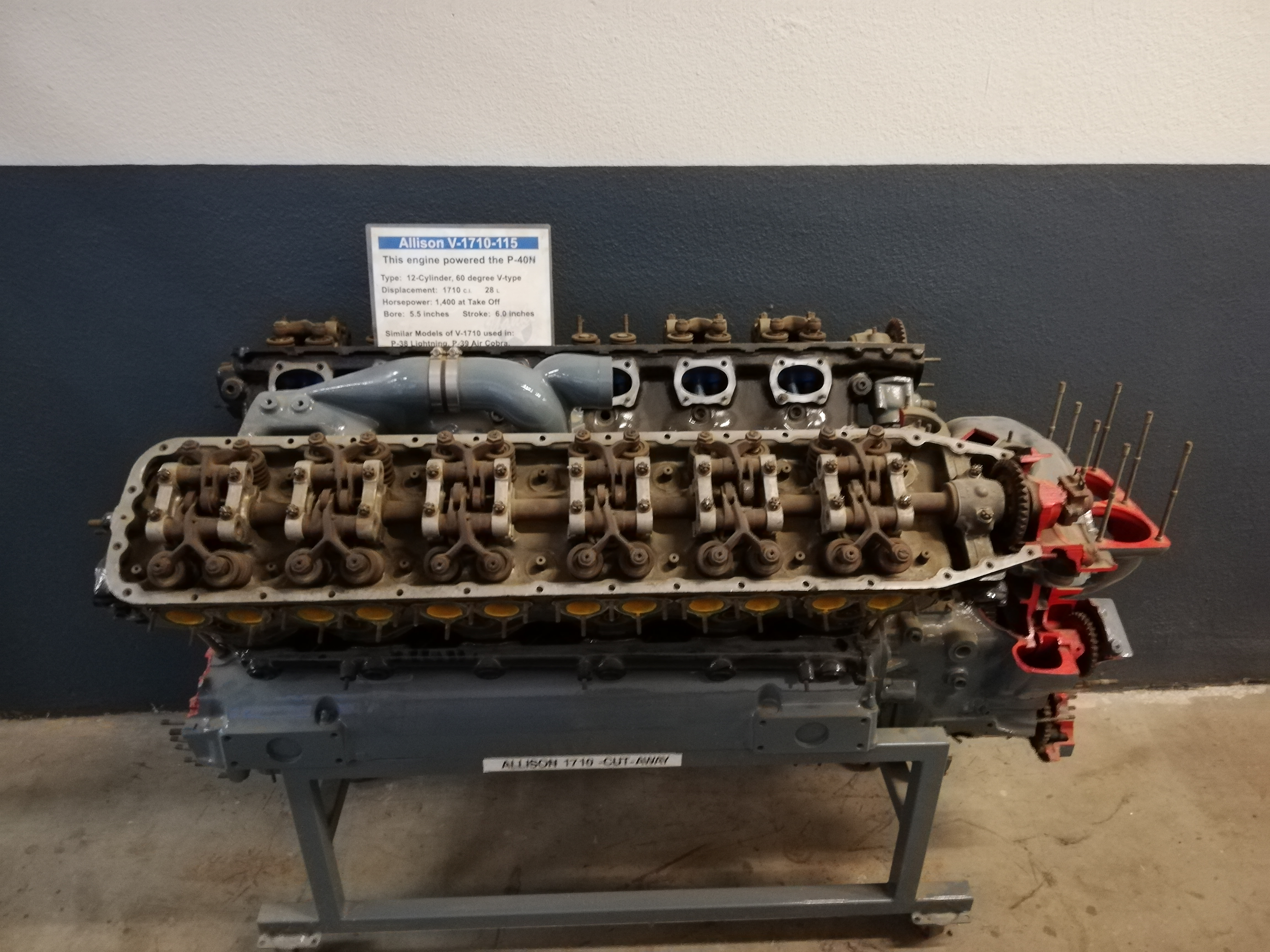 Powerd P-40N Warhawk. It is now on display in aisle from Hangar 3 to restoration hangar at the Yanks Air Museum, Chino, California, USA. 20th September 2019